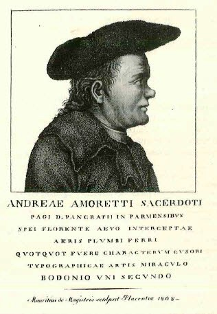 Portrait of Don Andrea Amoretti